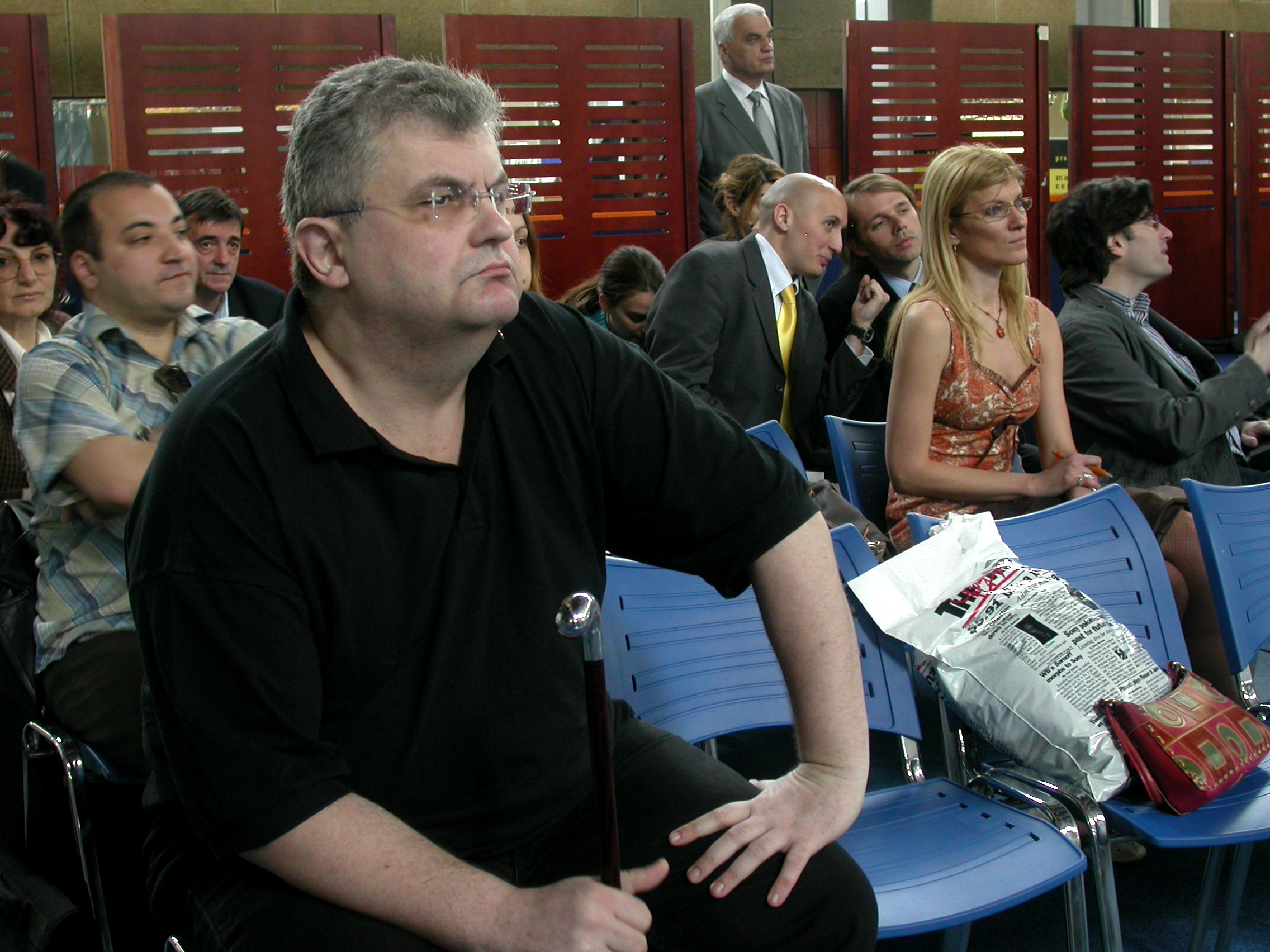 Nenad_Čanak